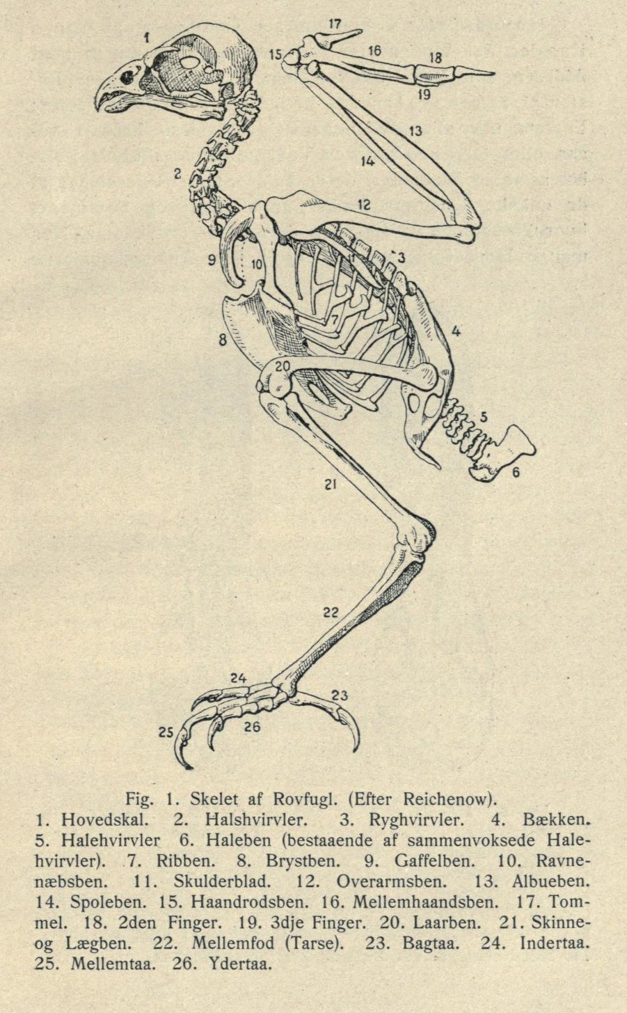 Raptor skeleton